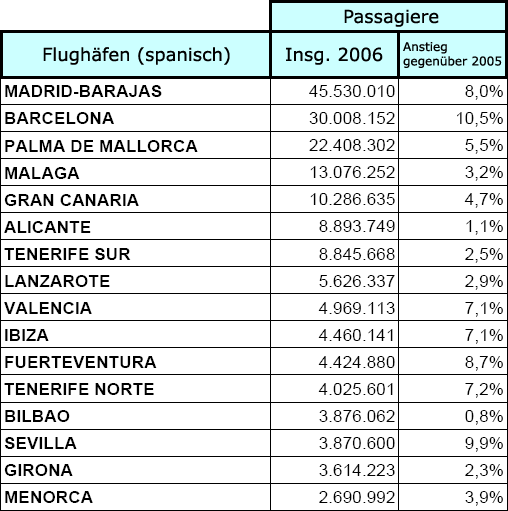 Passenger statistics of Spains top 16 airports from 2006